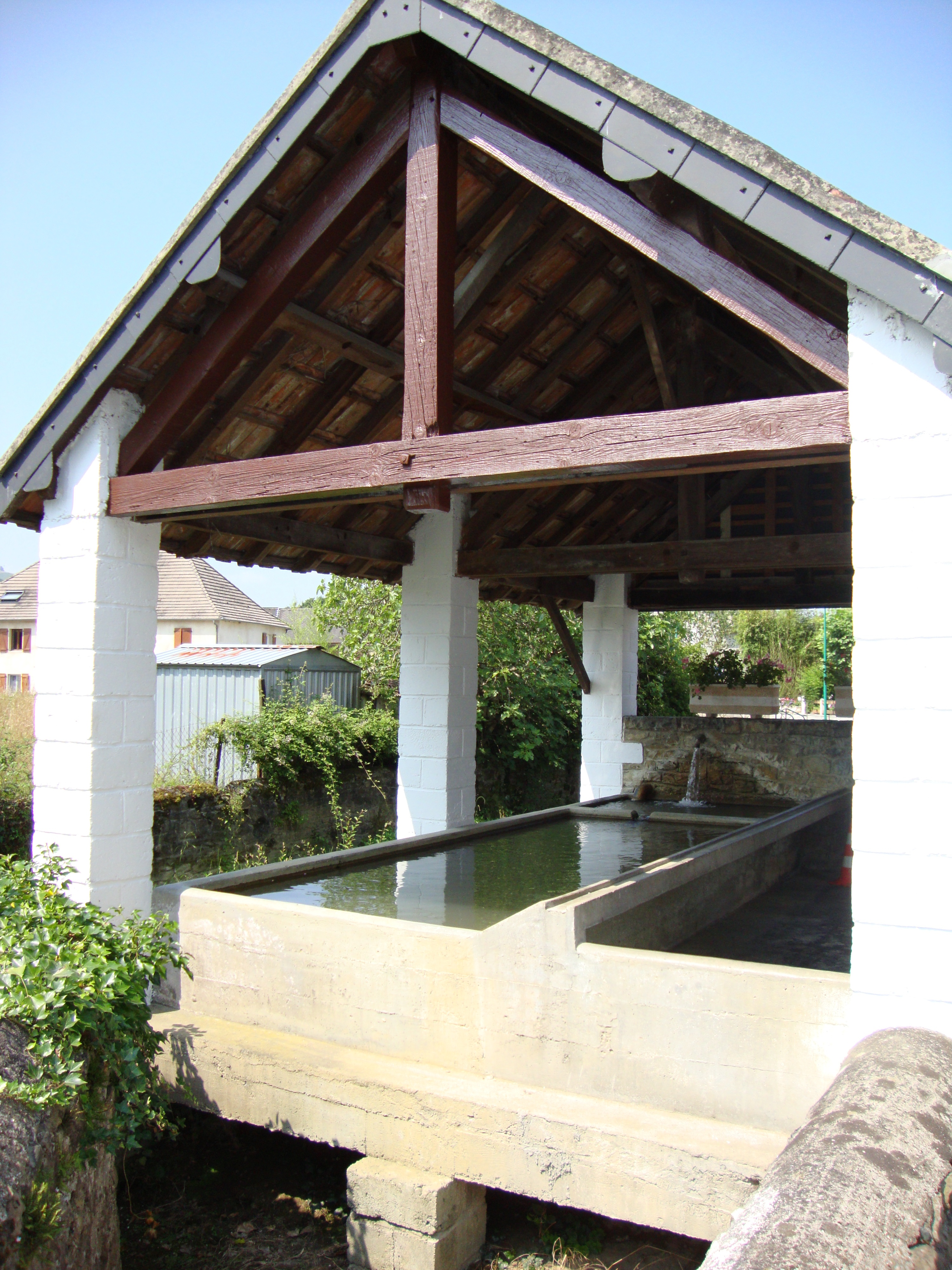 Chéraute (Pyr-Atl, Fr) wash house